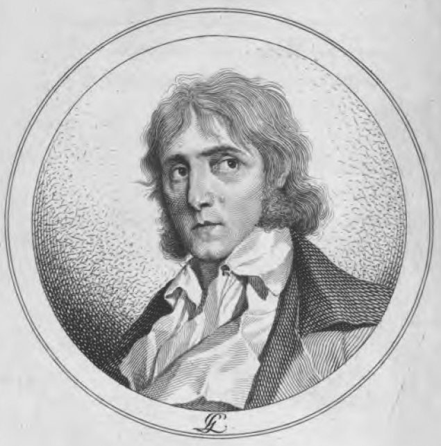 Portrait of Francesco Saverio Salfi (1759-1832)